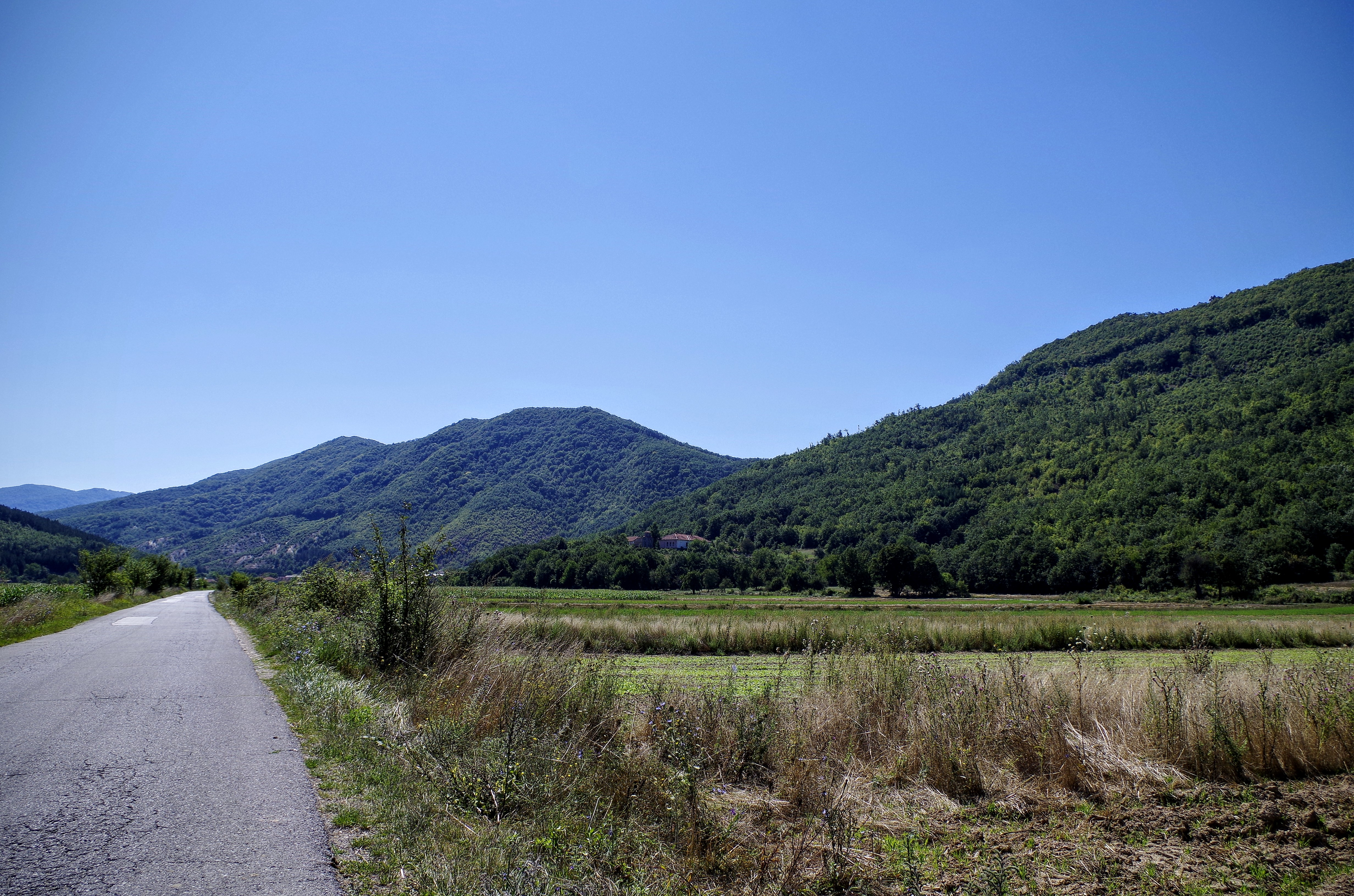 View of the village Lešani, Macedonia